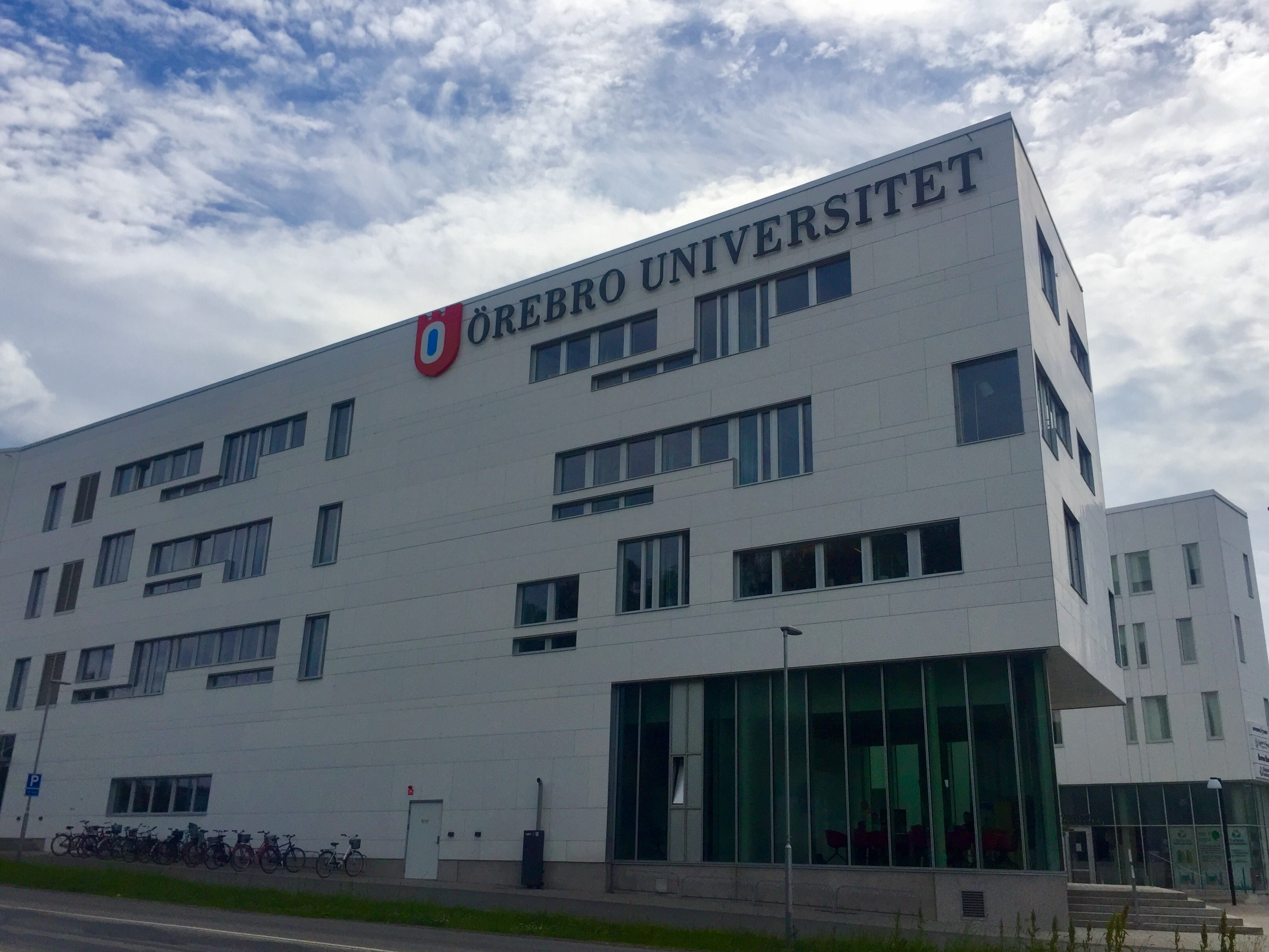 Örebro University, Örebro, Sweden.